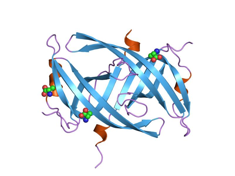 Cartoon representation of the molecular structure of protein registered with 1v1q code.